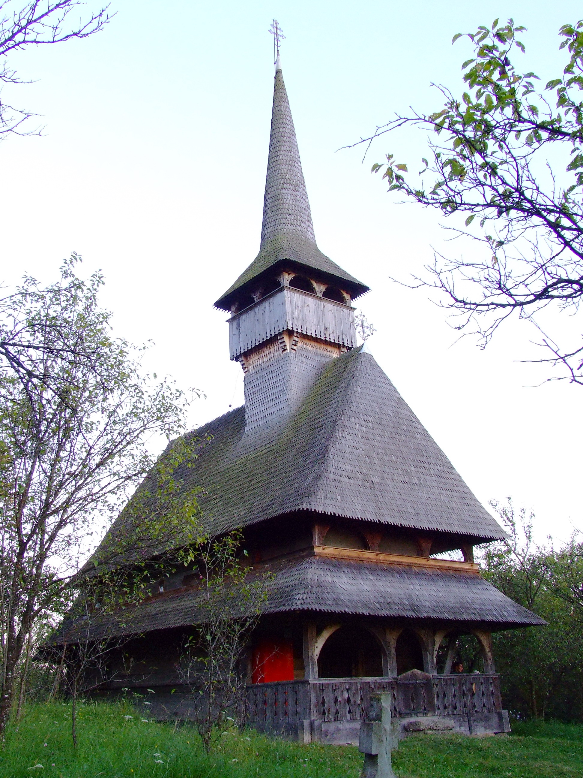 Wooden church in Bârsana, Maramureş